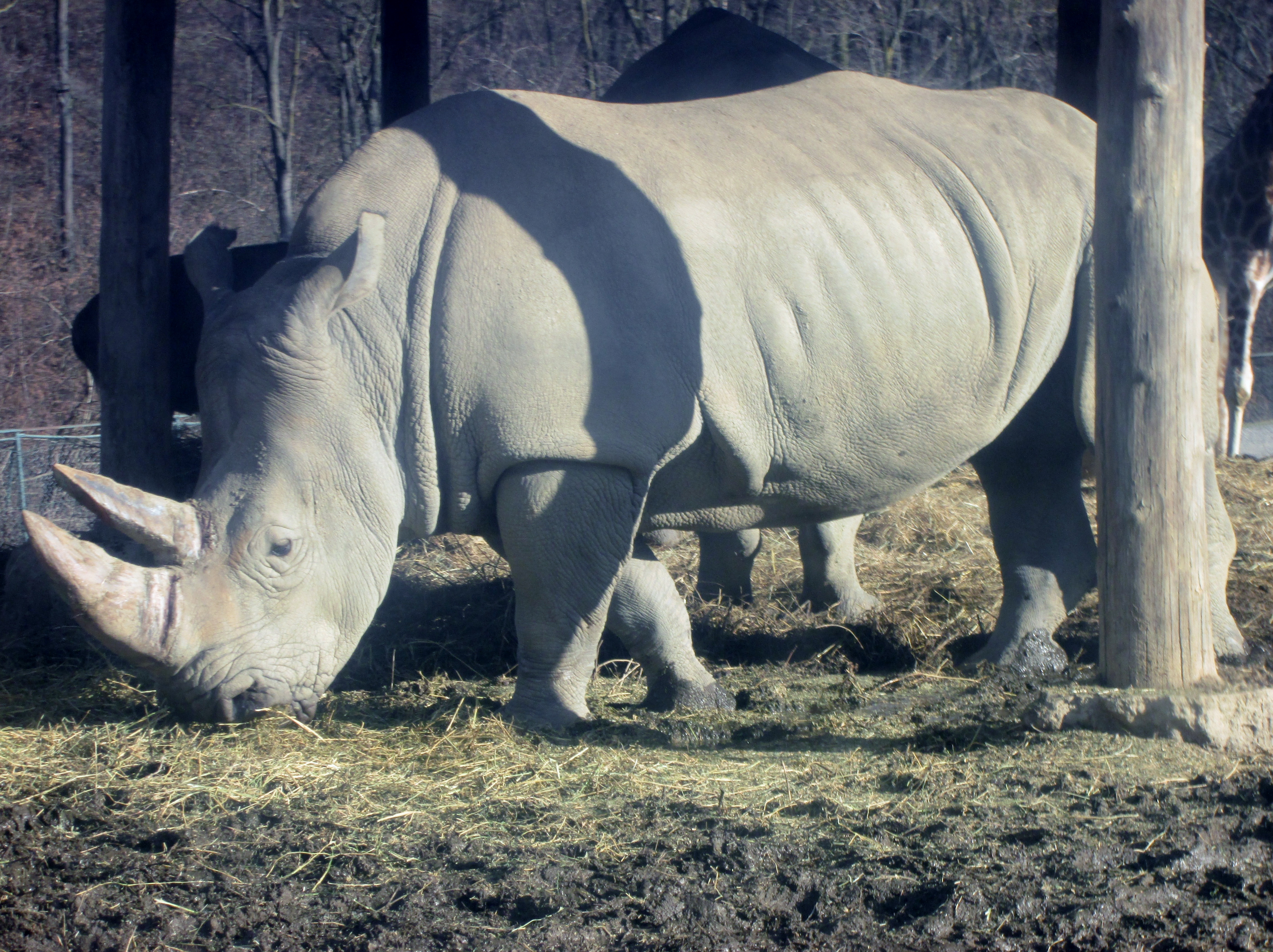 The White Rhyno in Pombia ITALY